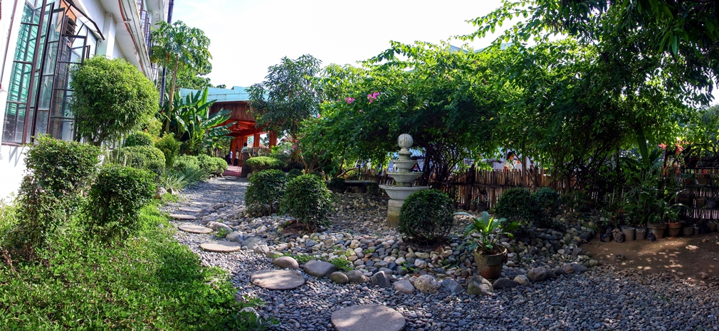 UCU maintains the Clean and Green Environment